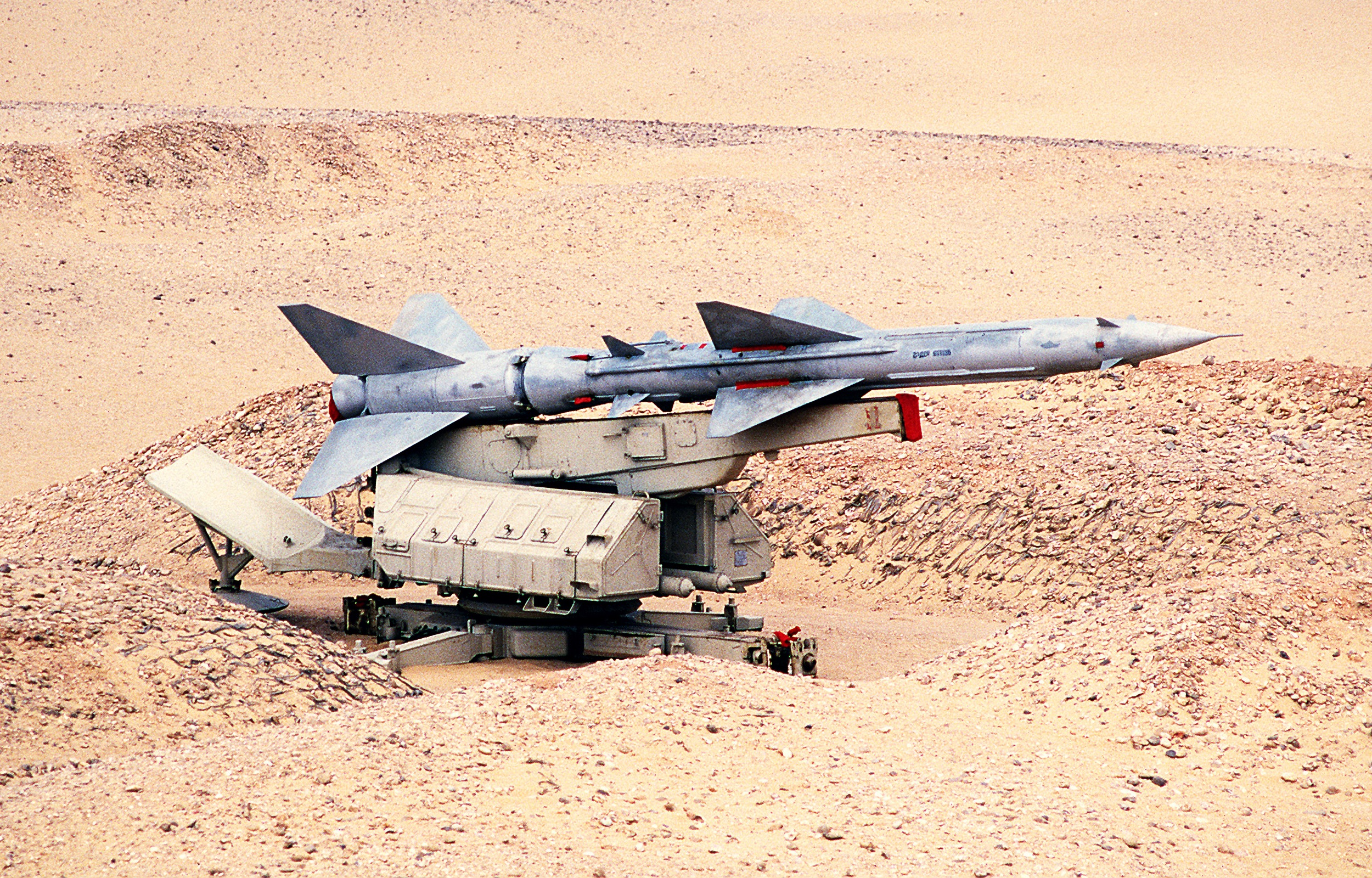 An Egyptian SA-2 surface-to-air missile is deployed during the multinational joint service Exercise Bright Star '85.